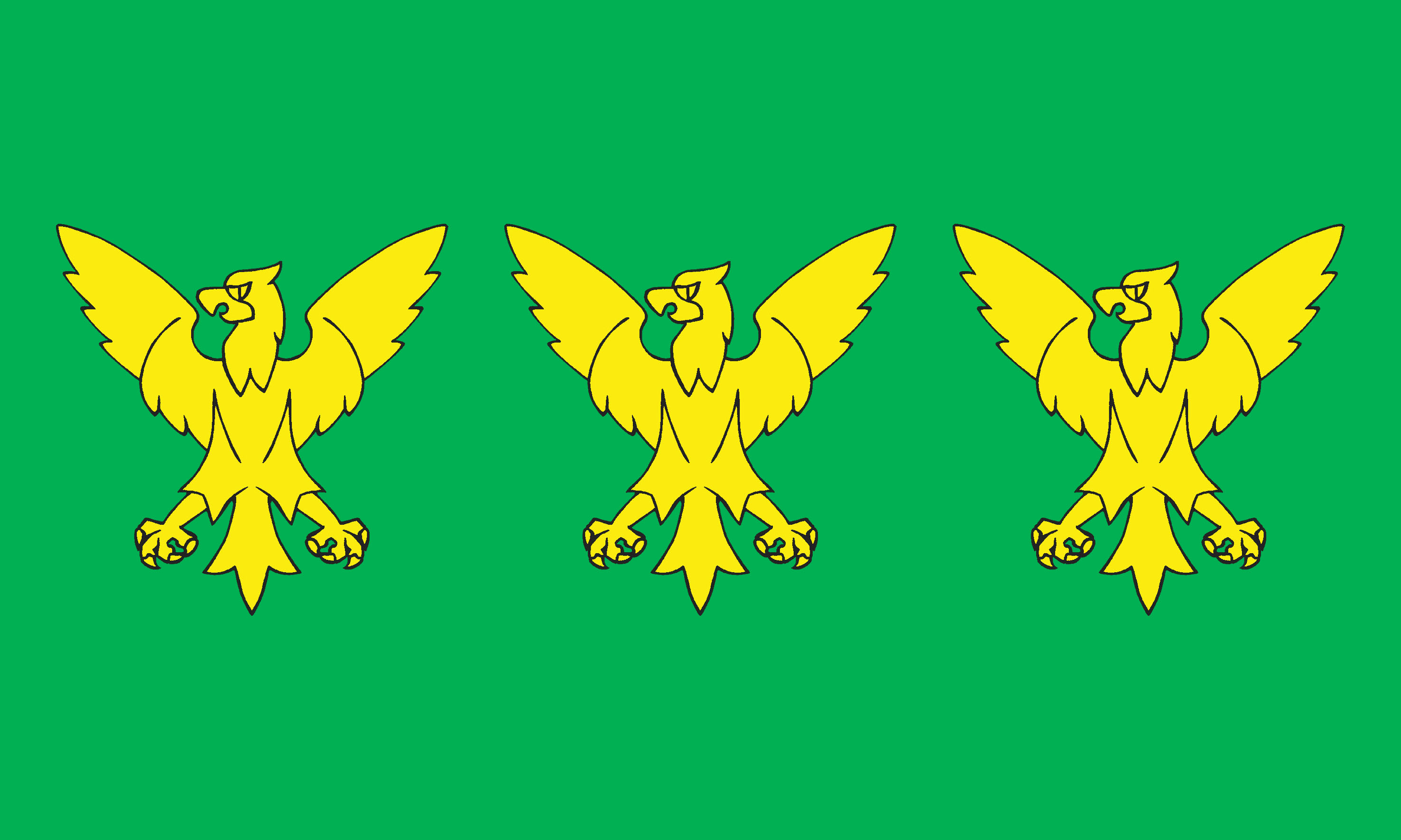 Flag of Caernarfonshire